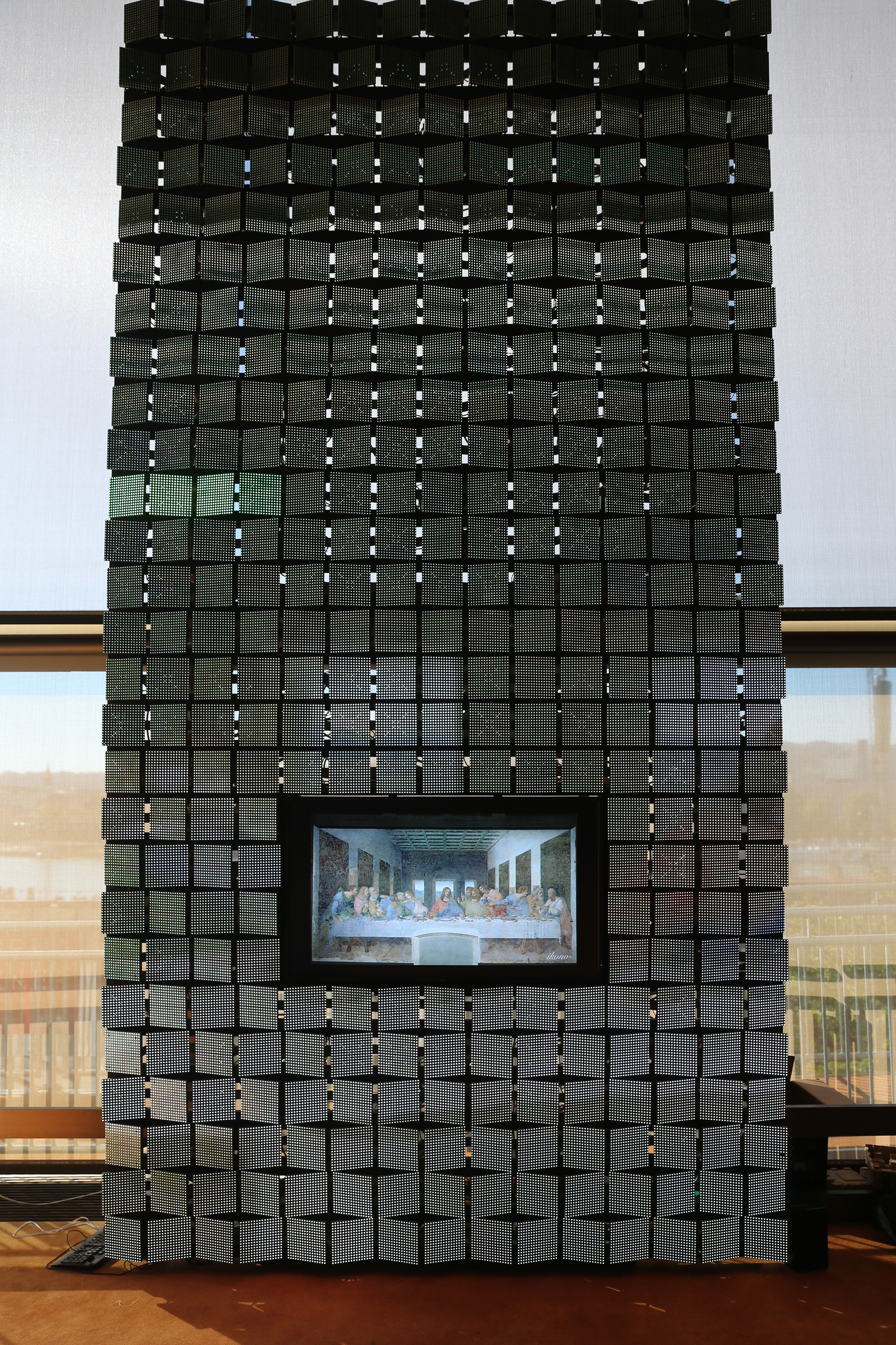 ikono.tv at Ars Electronica 2013 at Brucknerhaus, Linz, Upper Austria.